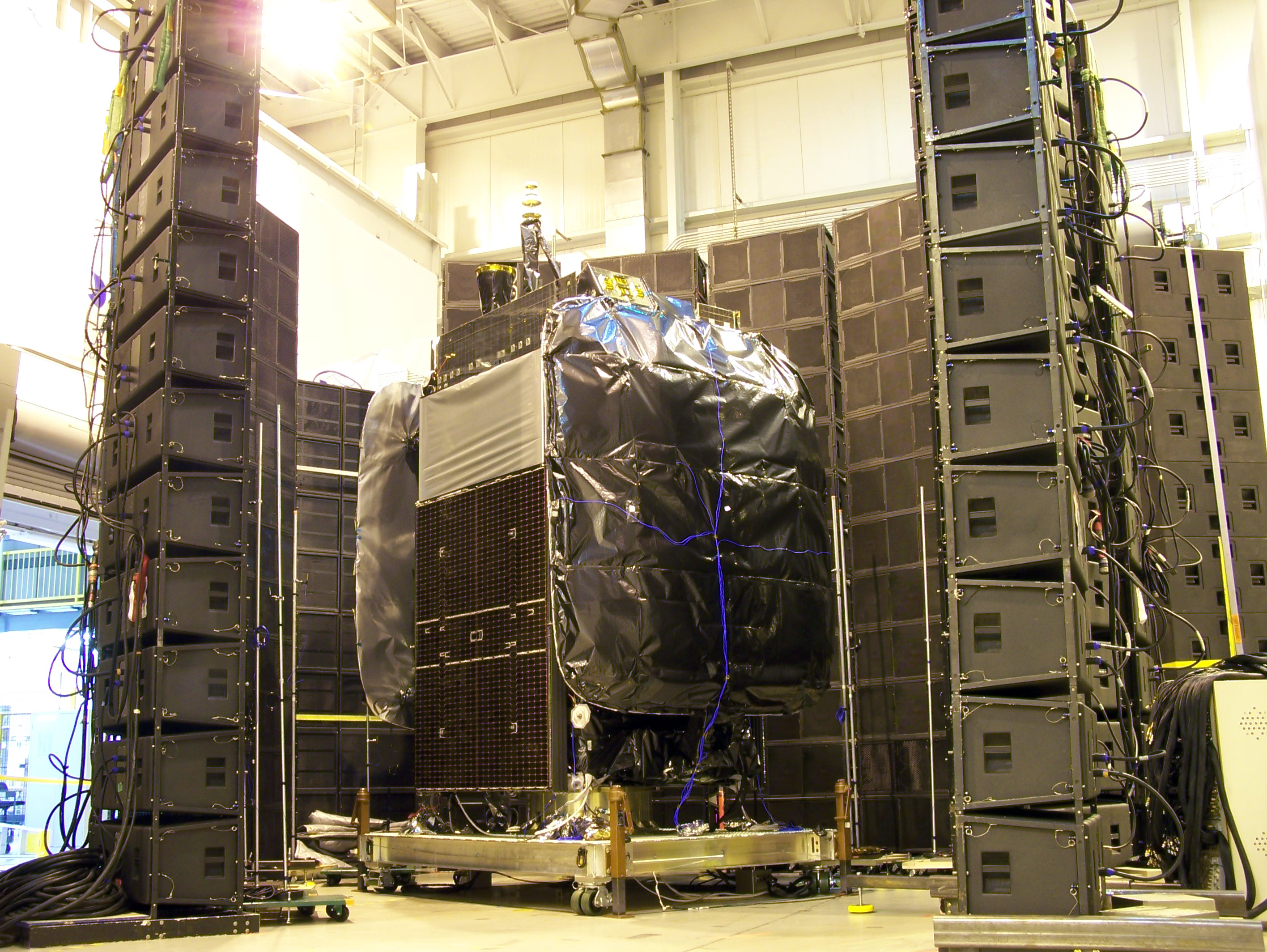 Typical Spacecraft DFAT® Test